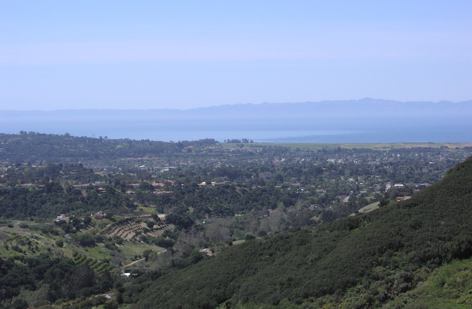 Picture of unincorporated "Noleta" area between Goleta and SB, from above, taken by me 5/28/06